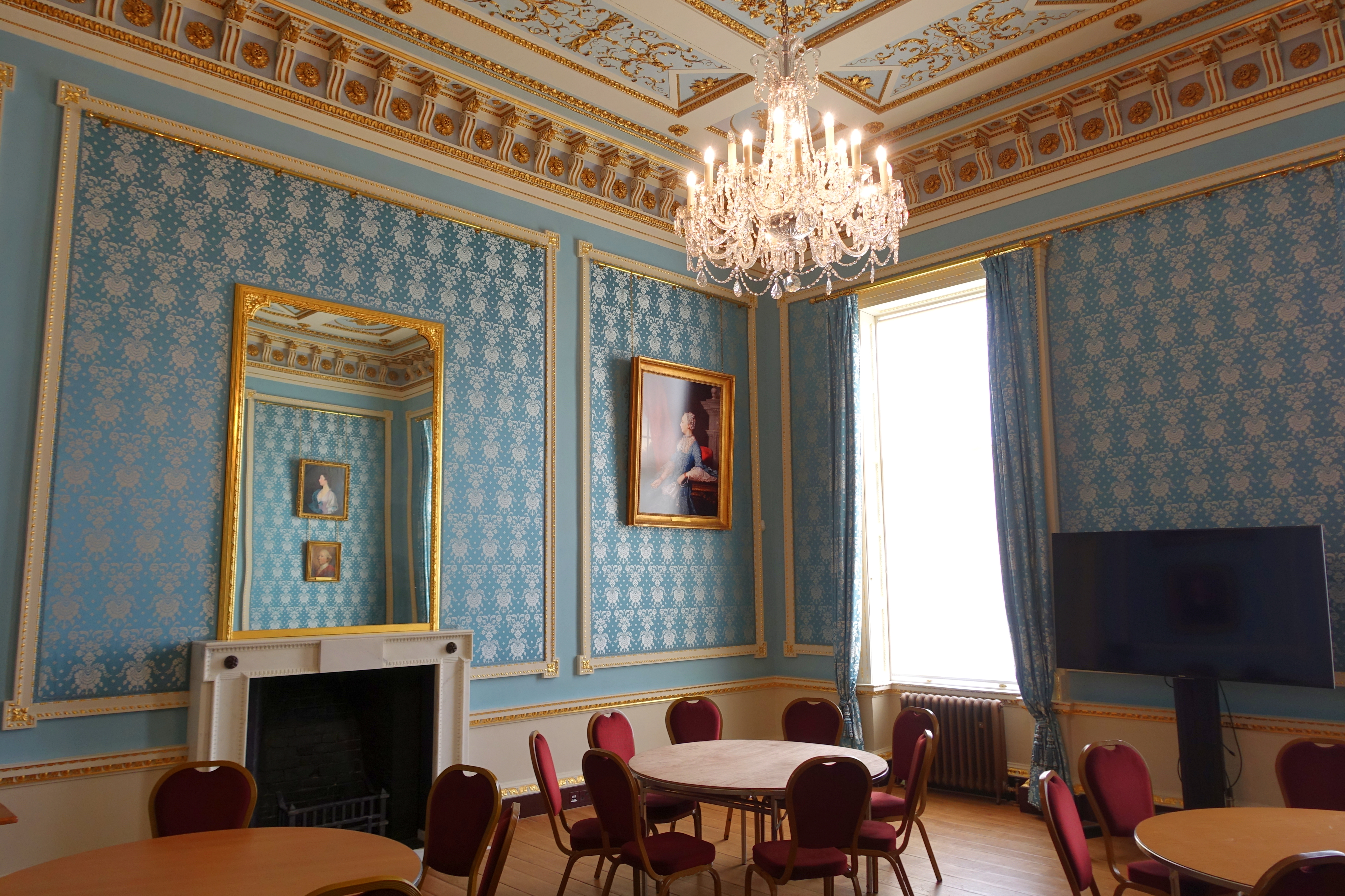 Interior view of Stowe House - Buckinghamshire, England.